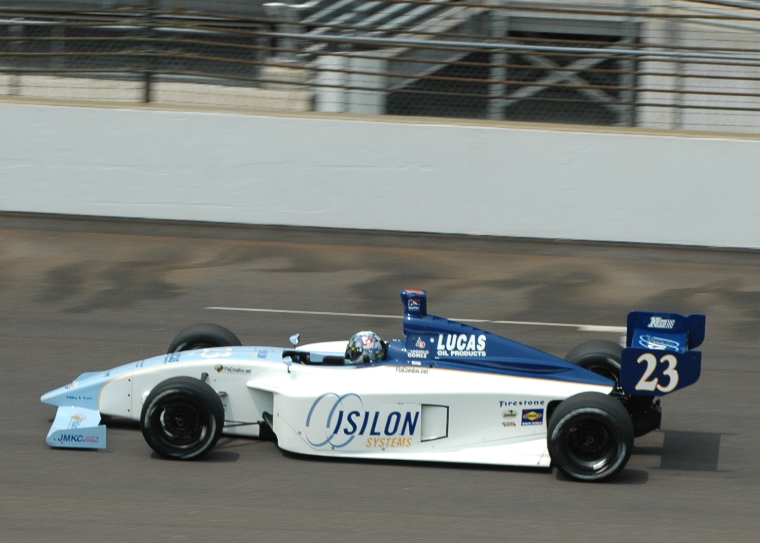 Logan Gomez driving in the 2007 Freedom 100 Indy Pro Series race